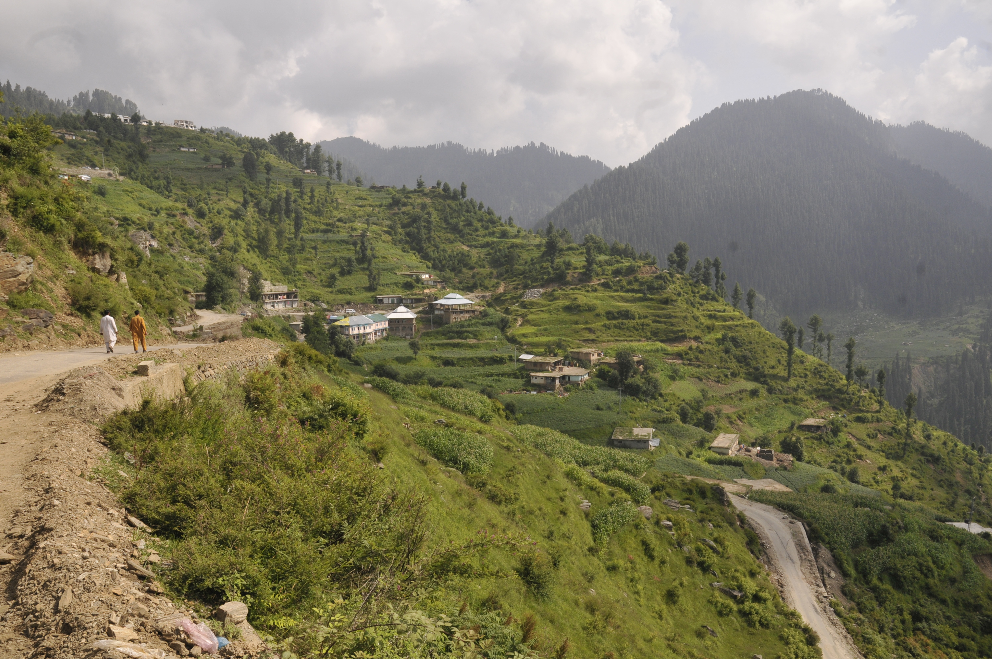 swat dale Malam